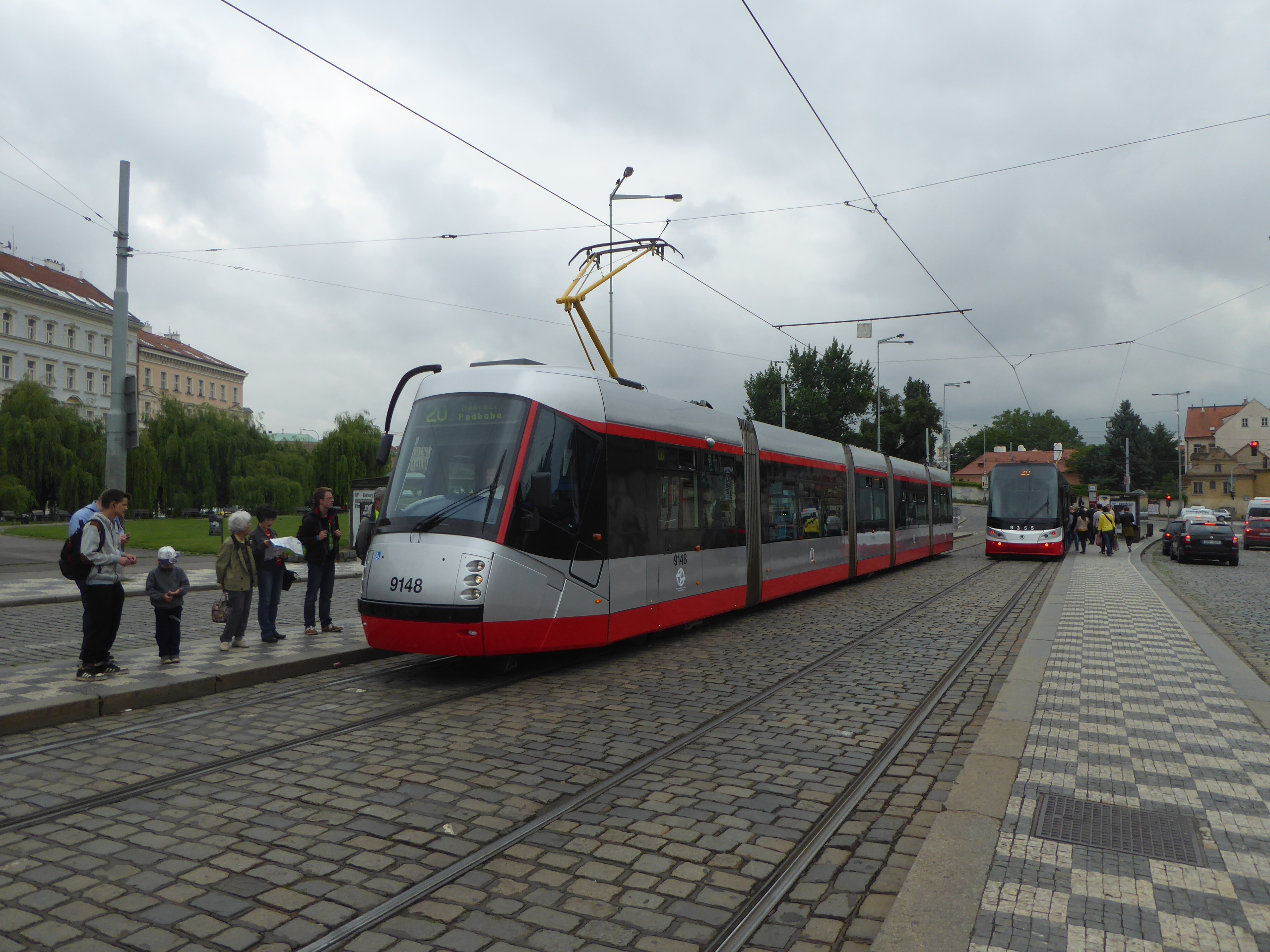 The Škoda 14T tram 9148 on DPP tram line 20 at Malostranská in Prague.